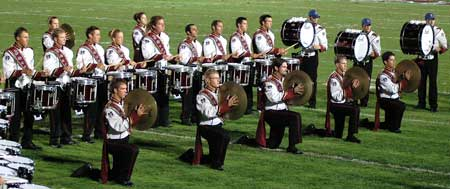 I took this picture.